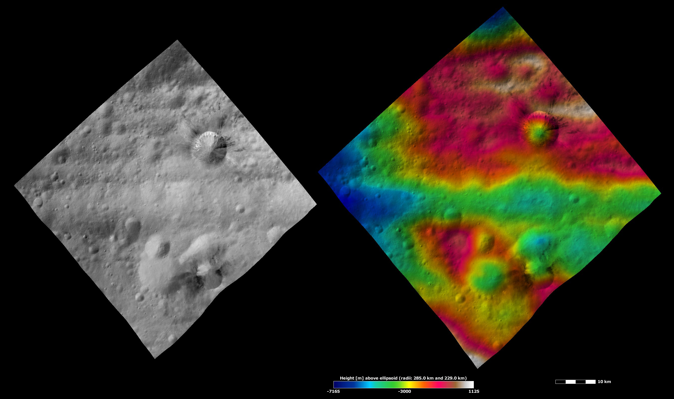 Divalia Fossa on 4 Vesta. Original caption: Apparent brightness and topography images of Divalia Fossa and Rubria and Occia craters The left-hand image is a Dawn FC (framing camera) image, which shows the apparent brightness of Vesta’s surface. The right-hand image is based on this apparent brightness image, which has had a color-coded height representation of the topography overlain onto it. The topography is calculated from a set of images that were observed from different viewing directions, which allows stereo reconstruction. The various colors correspond to the height of the area. The white and red areas in the topography image are the highest areas and the blue areas are the lowest areas. These images show a part of the large trough, Divalia Fossa, which encircles most of Vesta’s equator. Divalia Fossa is visible in both the apparent brightness image and the topography image: it is the approximately 10 kilometer (6 mile) wide depression that runs from the left corner to the right corner of the images. The top rim of Divalia Fossa is especially clear in the topography image. A number of smaller troughs above and below Divalia Fossa are parallel to it. Rubria and Occia craters straddle Divalia Fossa: Rubria is the crater with dark and bright material above Divalia Fossa and Occia is the crater with bright and dark material below. These images are located in Vesta’s Gegania quadrangle, just south of Vesta’s equator. NASA’s Dawn spacecraft obtained the apparent brightness image with its framing camera on Oct. 16, 2011. This image was taken through the camera’s clear filter. The distance to the surface of Vesta is 700 kilometers (435 miles) and the image has a resolution of about 70 meters (230 feet) per pixel. This image was acquired during the HAMO (high-altitude mapping orbit) phase of the mission. These images are lambert-azimuthalmap projected.